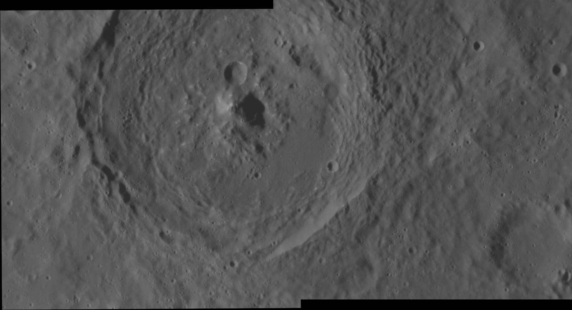 Grainger crater on Mercury. MESSENGER Narrow Angle Camera mosaic. North is at upper left. Emission Angle: 9-13 Incidence Angle: 67.8-70.2 Latitude: -44.7 Longitude: 105.4 Phase Angle: 80